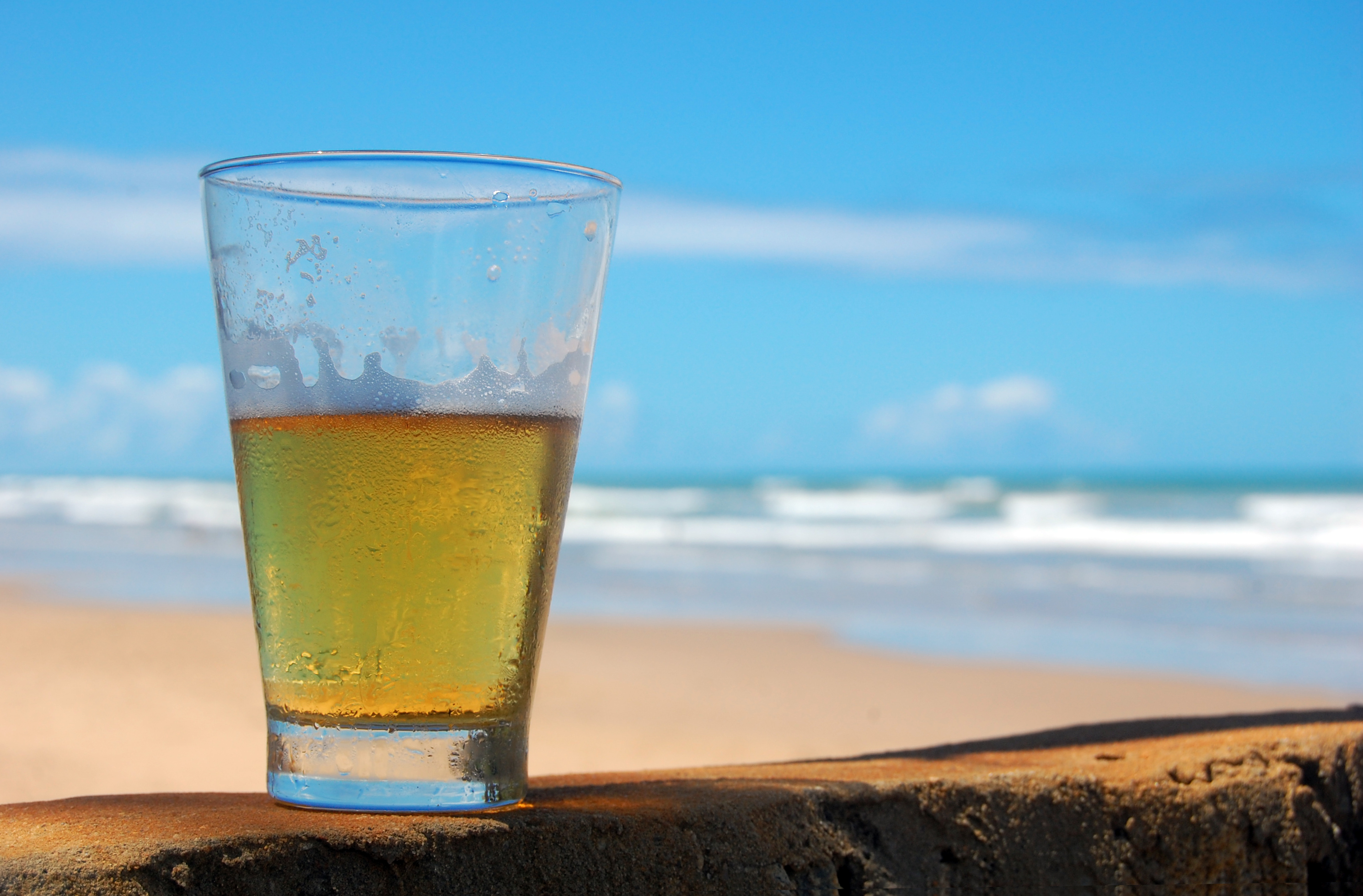 Caueira Beach, Brazil